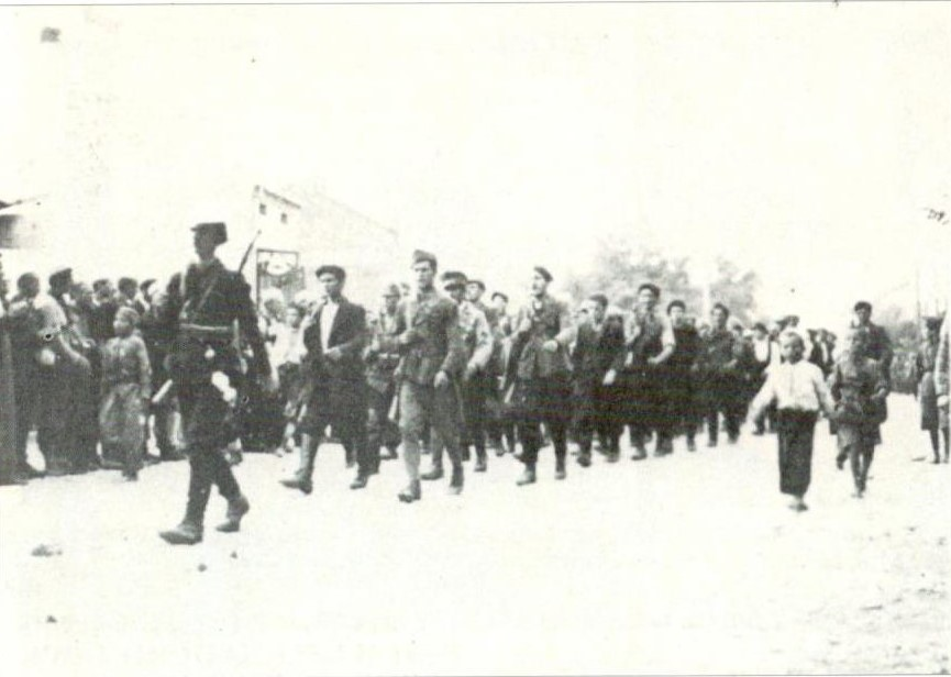 Partisans from the battalion "Mirche Acev" in the liberated town of Kichevo, on 12.9.1943